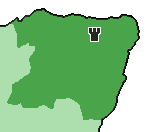 Image showing the location of Fyvie Castle within Grampian, Scotland